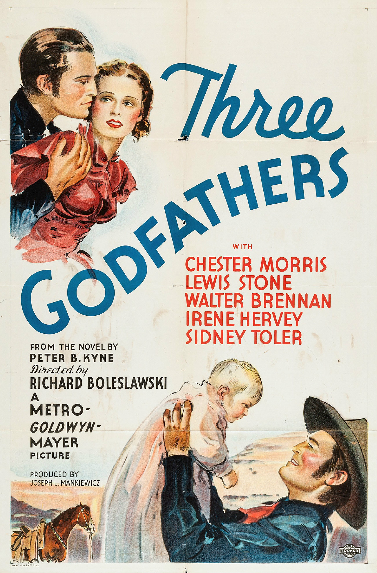 Poster for the 1936 film Three Godfathers. There are no copyright marks. At bottom left is Made in USA *7762. At bottom right is the Tooker Litho Co. logo-they printed the poster.